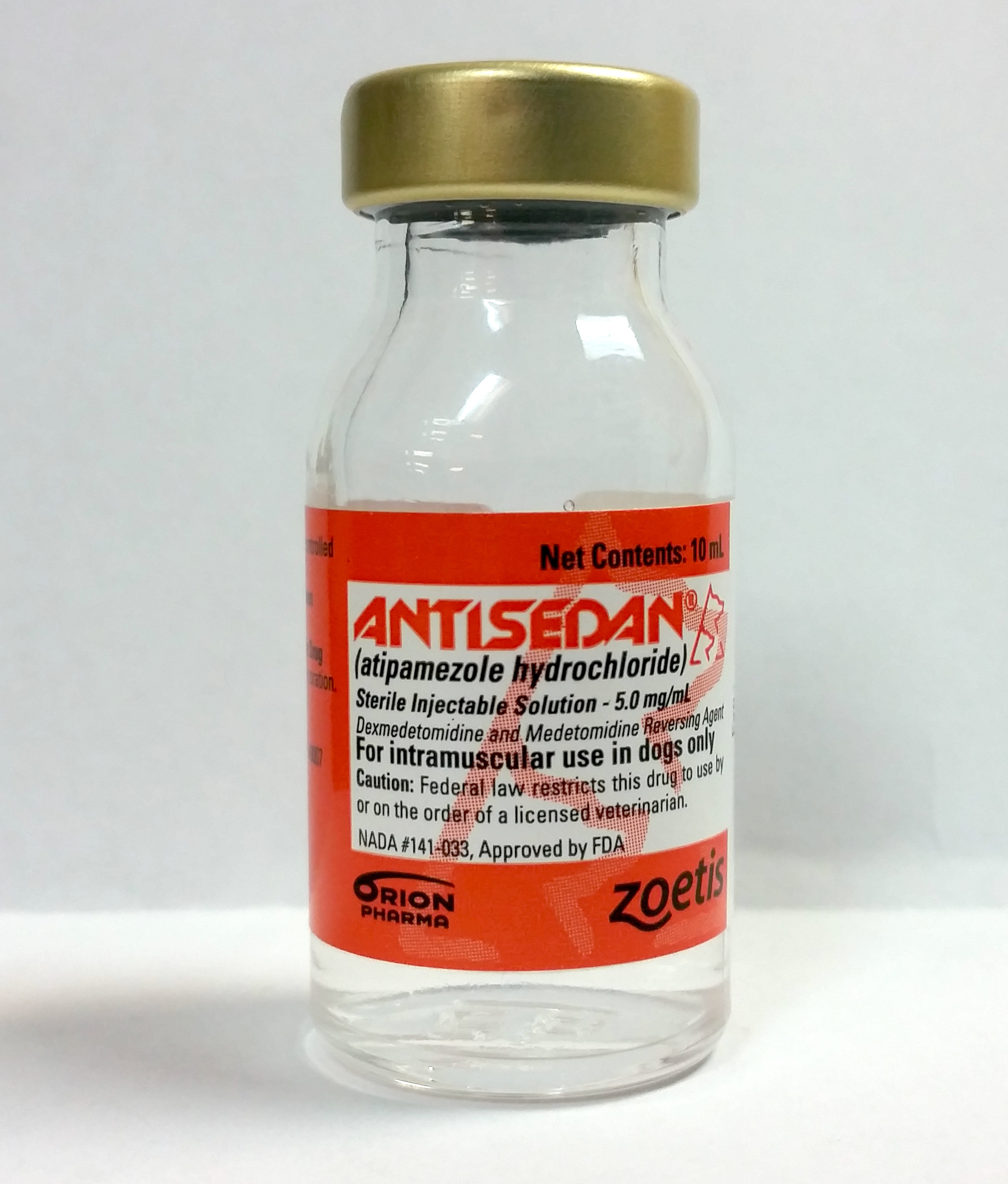 Bottle of atipamezole, sold under the brand name "Antisedan"